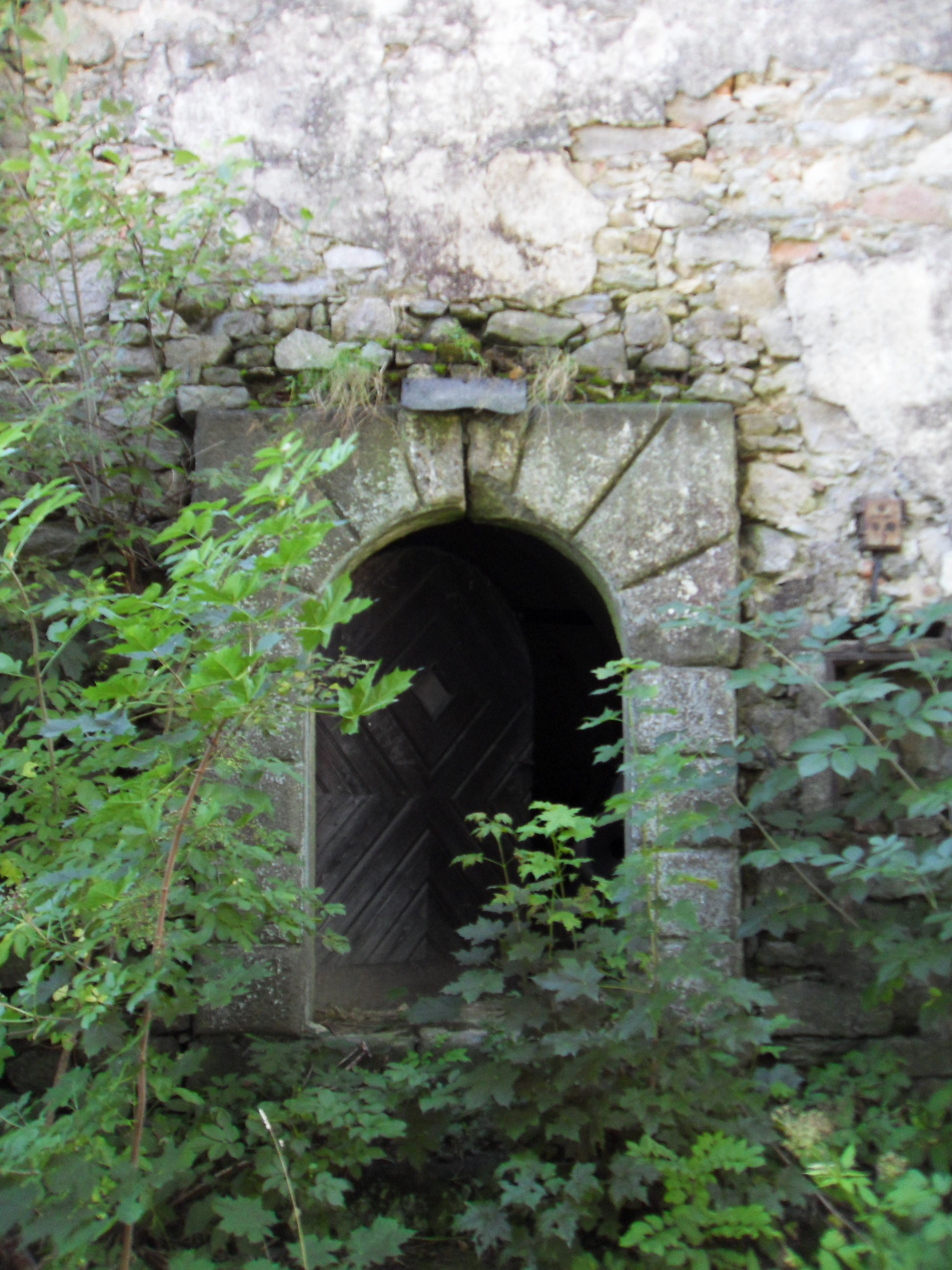 Svébohy fortress, Horní Stropnice, České Budějovice district, Czech Republic